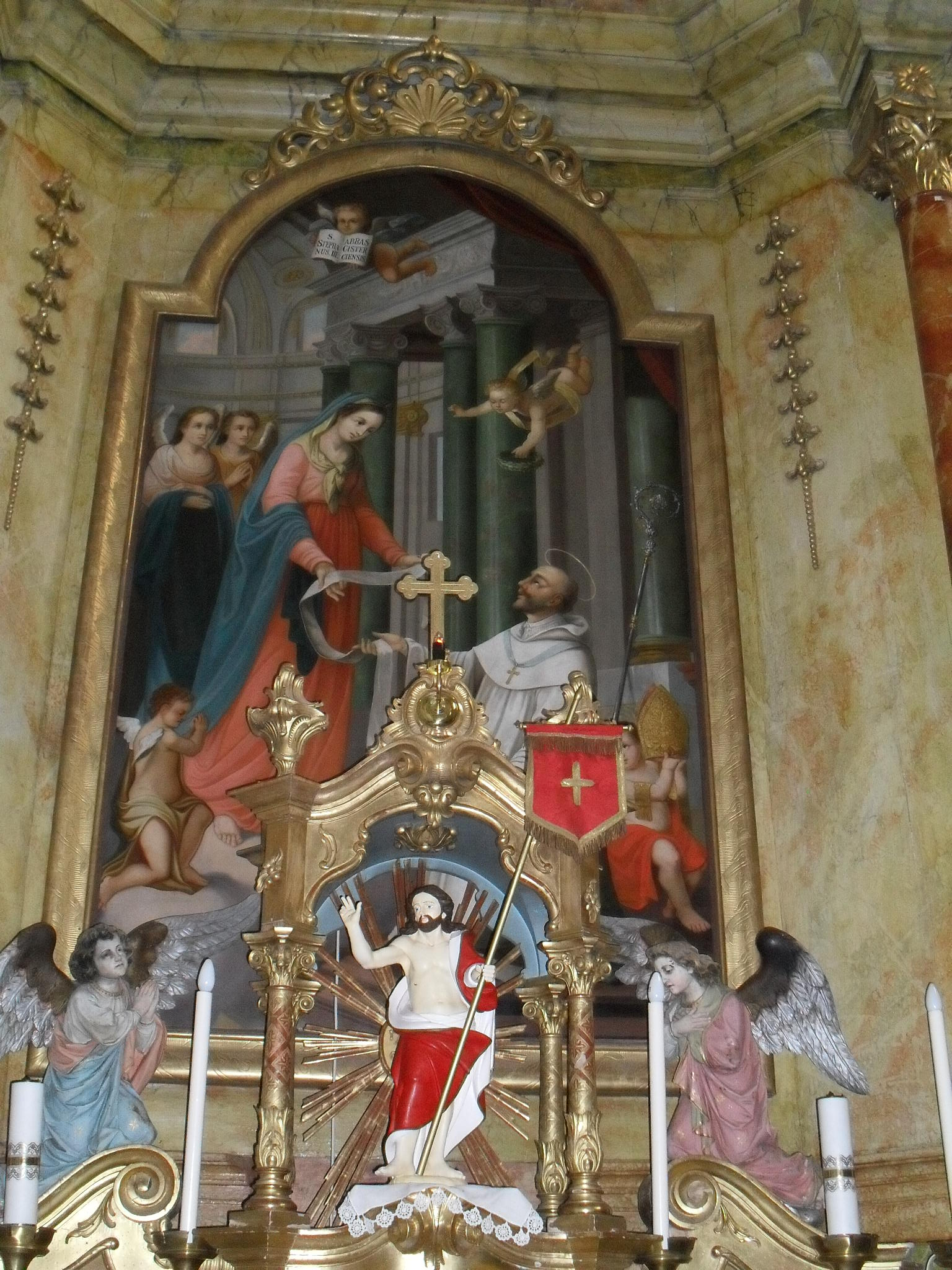 The restored high alter in the Church of Apátistvánfalva (the Legend of St. Stephen Harding)